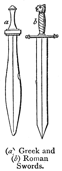 Illustration from 1908 Chambers's Twentieth Century. Sword, n. an offensive weapon with a long blade, sharp upon one or both edges, for cutting or thrusting.